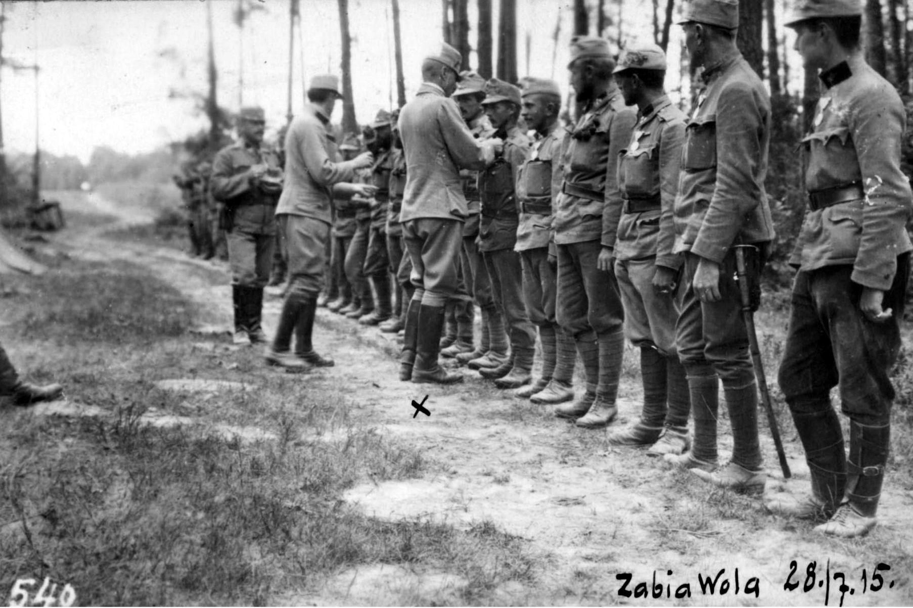 Salzburgisch-Oberösterreichisches Infanterie-Regiment „Erzherzog Rainer“ Nr. 59